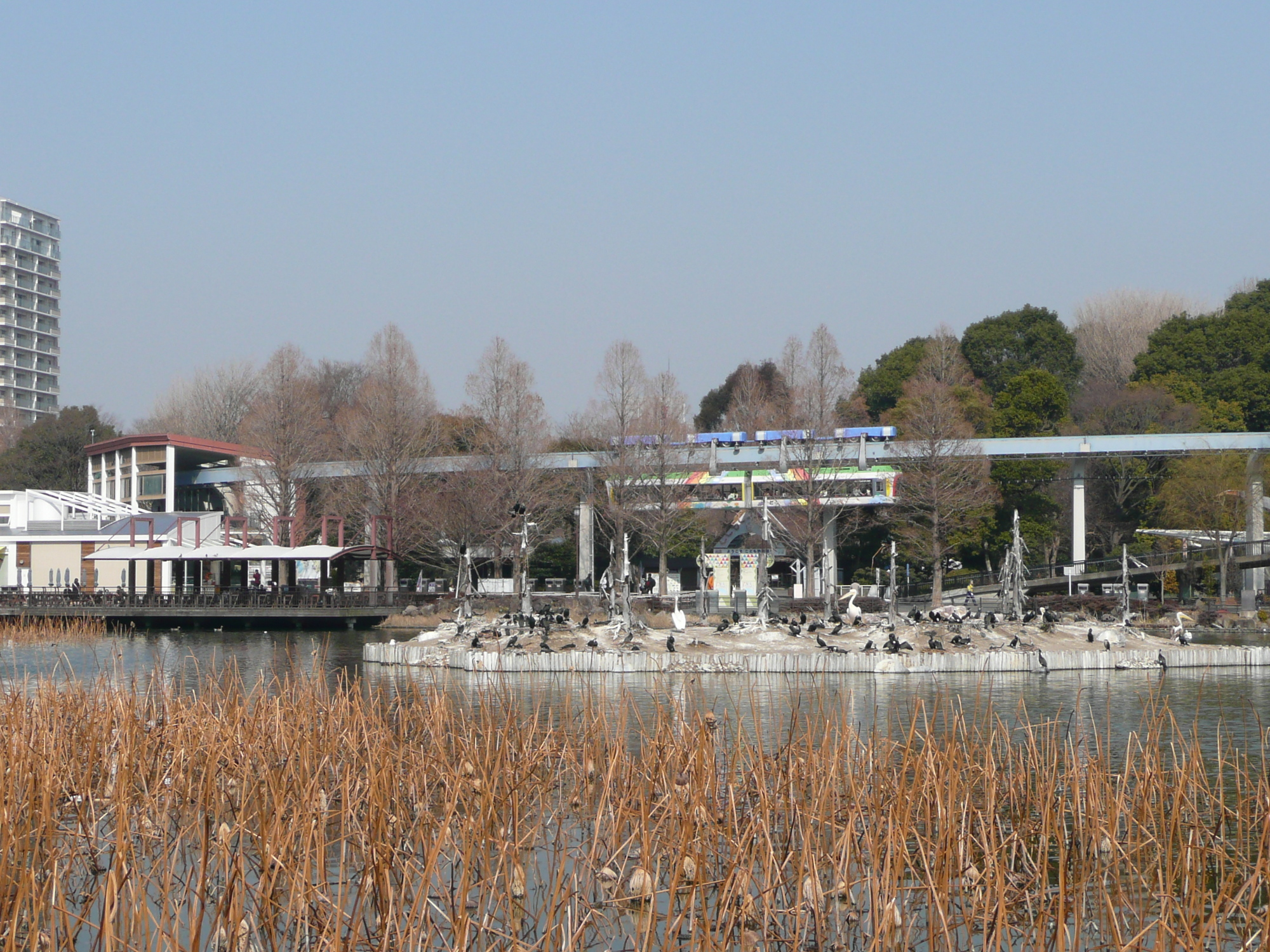 Ueno Zoo Monorail,Tokyo Metropolitan Bureau of Transportation and Unoike.